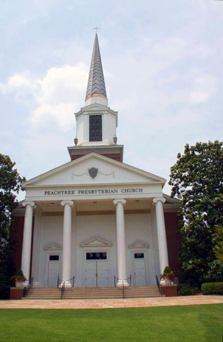 The front of the church's main entrance to the sanctuary.